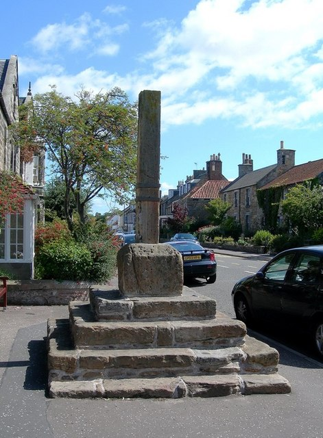 Aberlady Market Cross This old market cross is on the pavement beside the main road through the village. To see an older photo, look at